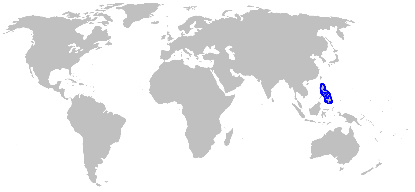 Distribution map for Hemitriakis leucoperiptera